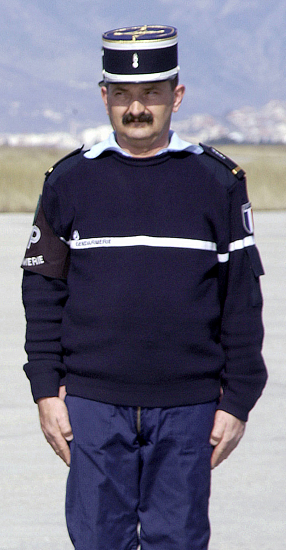 Gendarme prévôtal, the French Military Police.